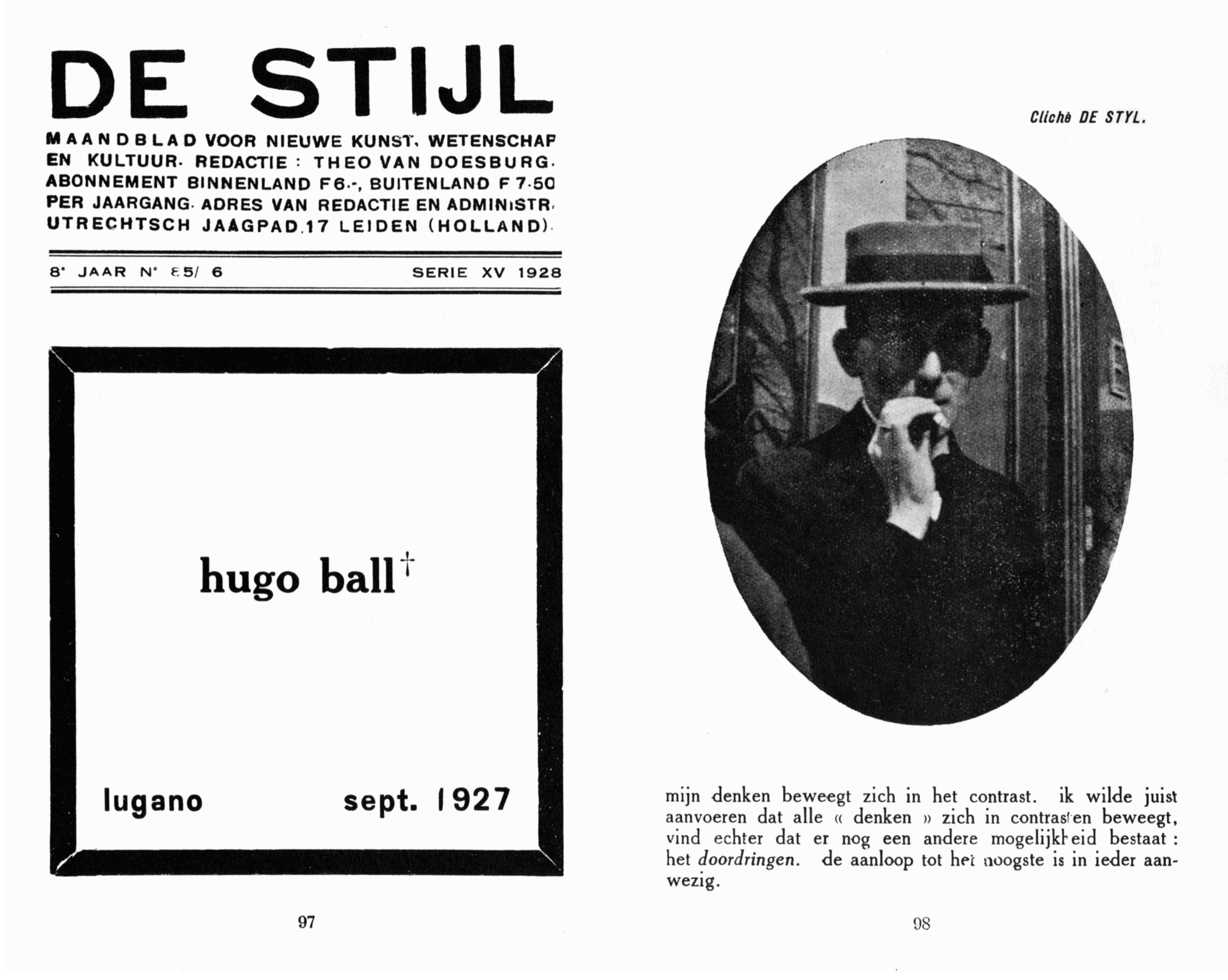 Hugo Ball †